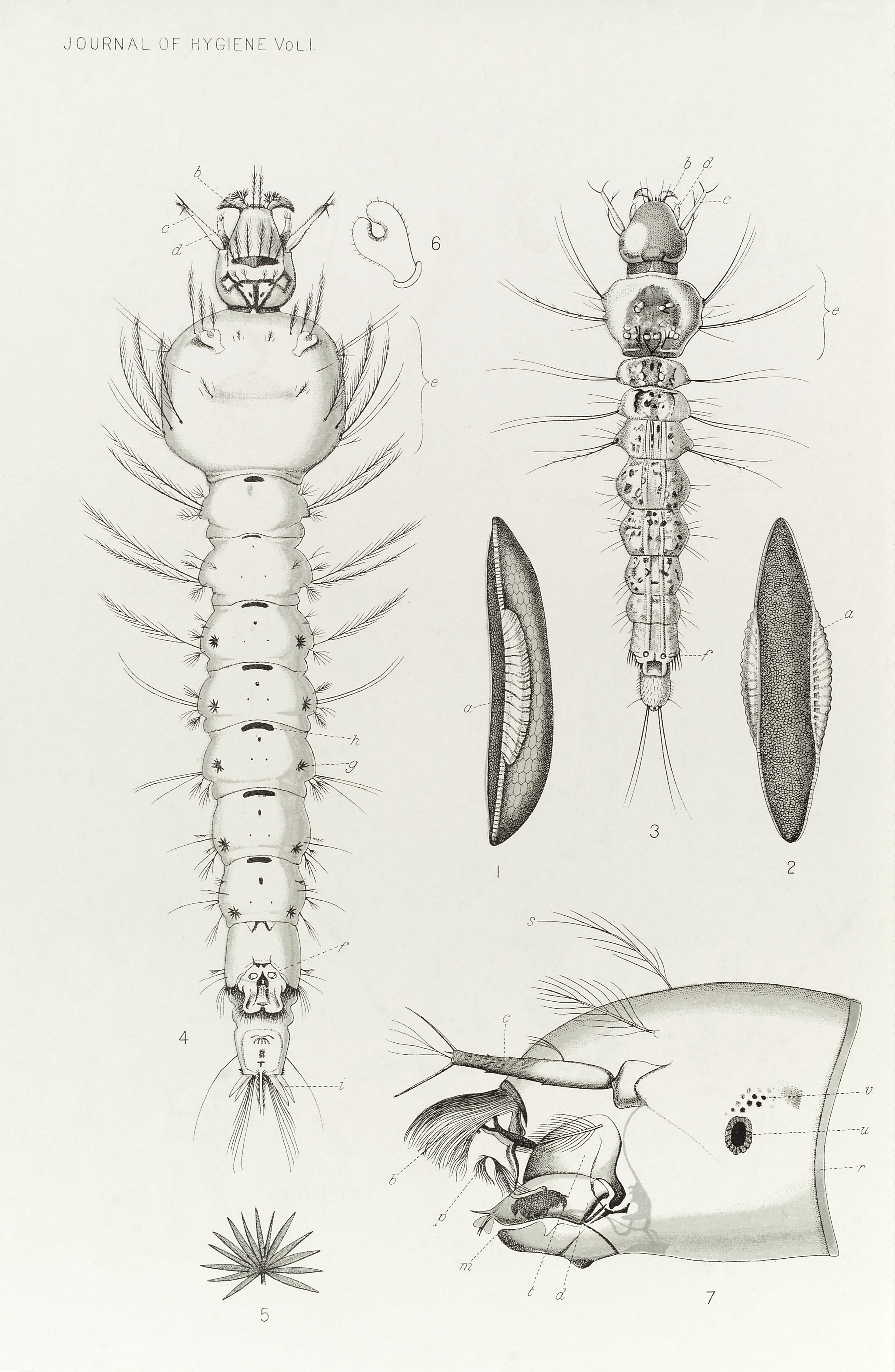 Illustration showing the life cycle and anatomy of the Anopheles mosquito. 1) Egg seen from the side, magnification x 60. 2) Egg seen from the upper surface, magnification x 60. 3) Very young larval stage, magnification x 60. 4) Fully grown larva x 16. 5) A palmate hair, highly magnified. 6) Flabellum or flap which overhangs the base of certain thoracic hairs. 7) Side view of head of fully grown larva. General Collections Keywords: Malaria; Insects; Infection; Anatomy; Insect; E Wilson; Metamorphosis; Mosquito; Life-cycle; Infectious disease; Agues; Communicable Diseases